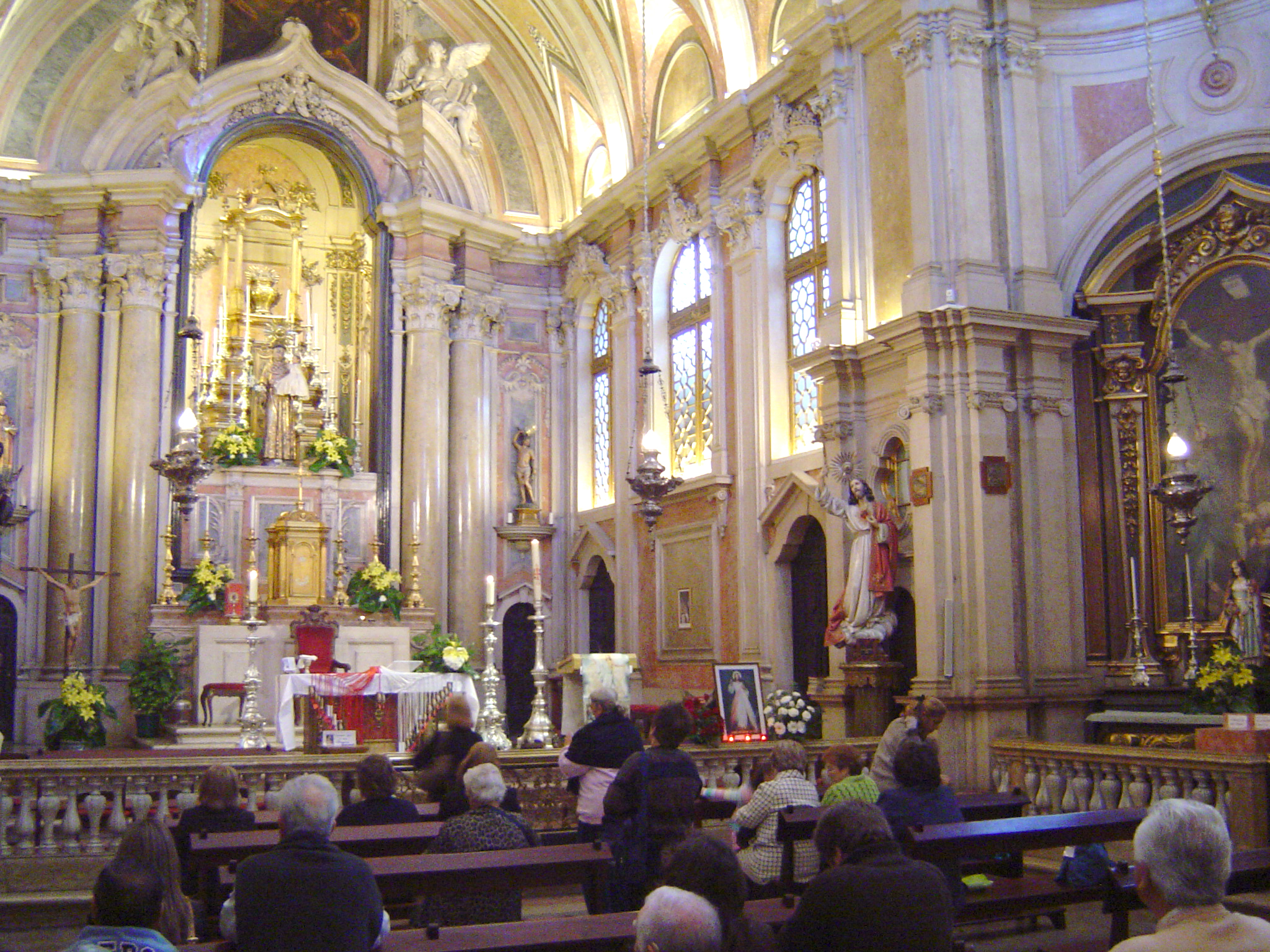 Interior of Saint Anthony Church in Lisbon, Portugal